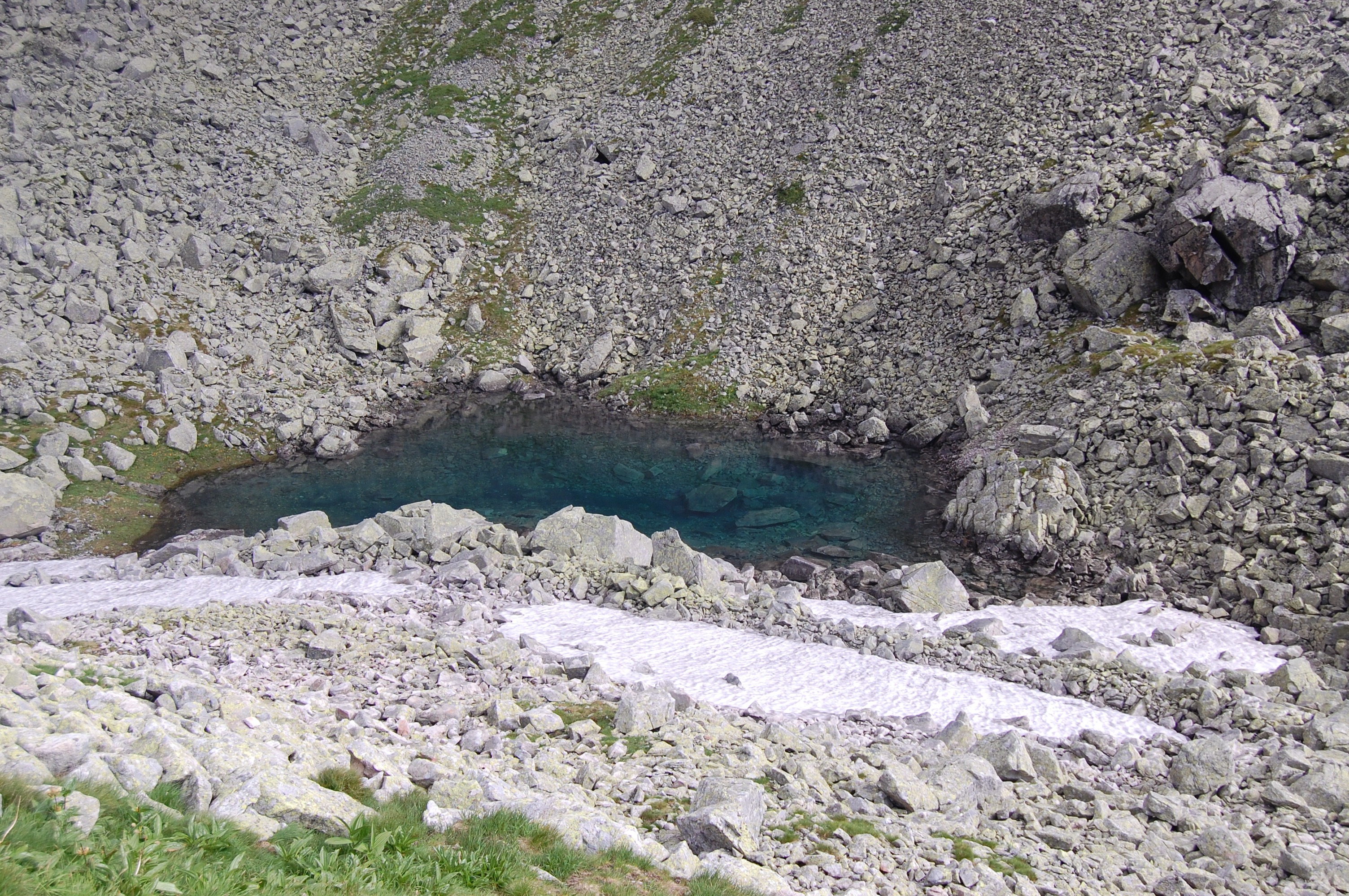 Belasé pleso lake in Červená dolina, High Tatras, Slovakia.